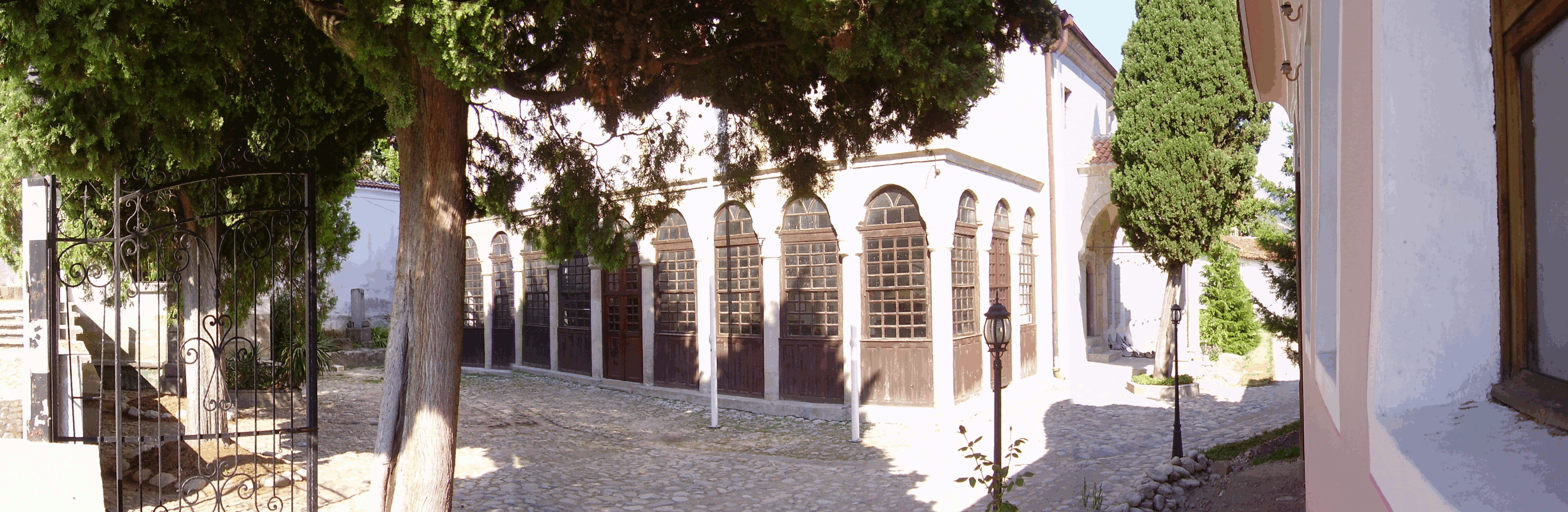 Church of Saints Peter and Paul (1846), Sopot, Bulgaria Panorama